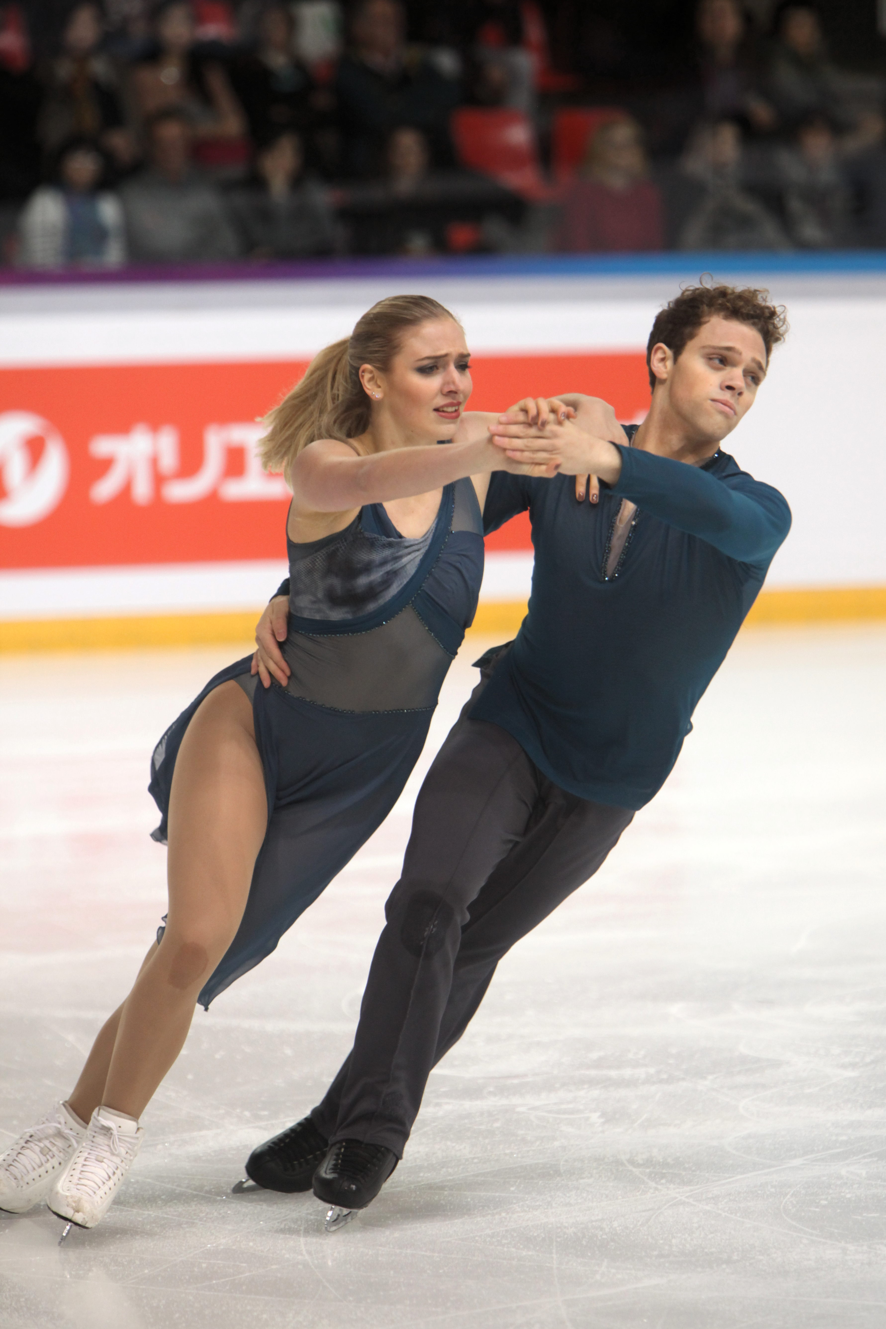 Rachel Parsons and Michael Parsons during the Free Dance at the Internationaux de France de Patinage 2018.